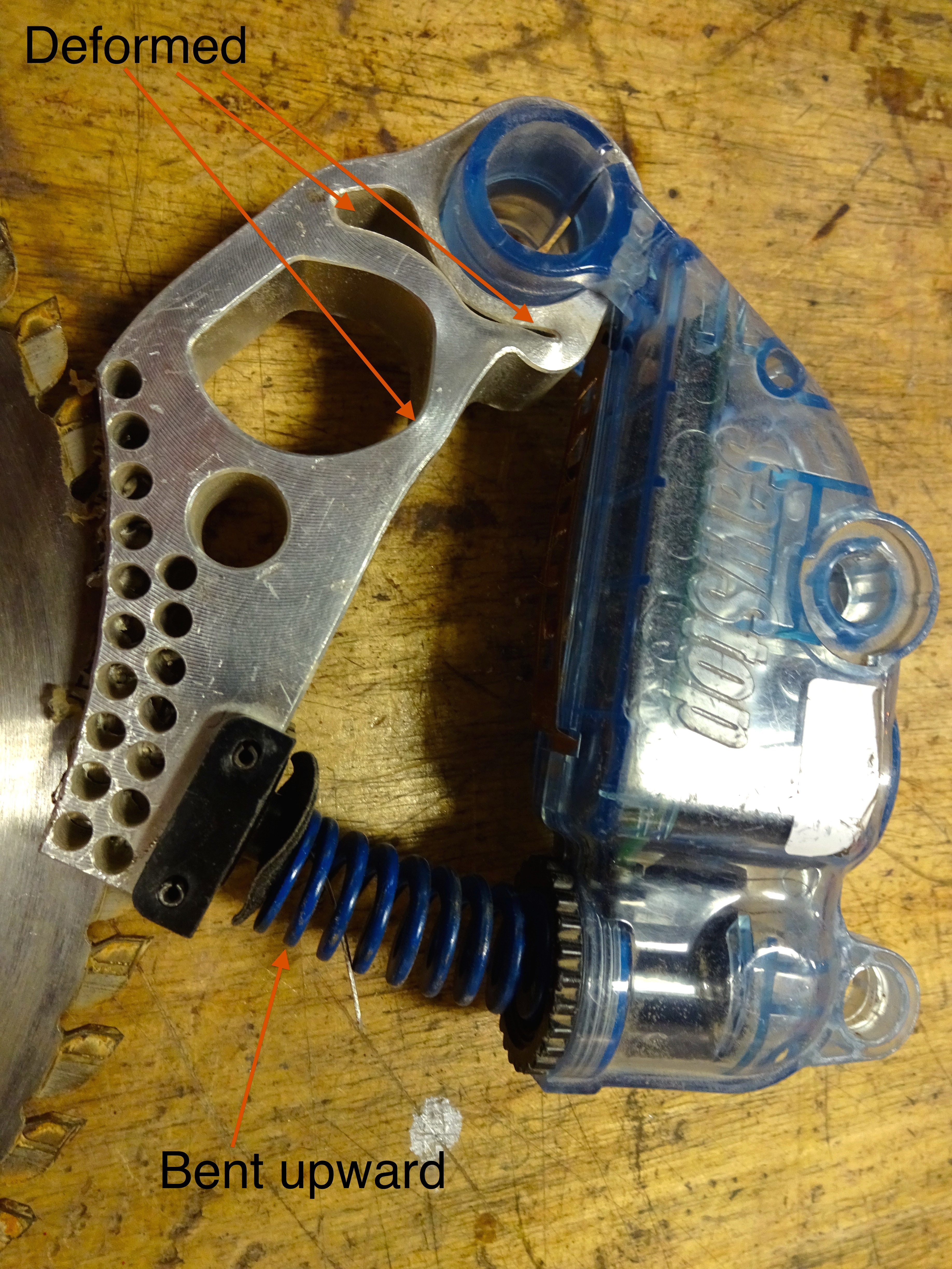 Saw breaking cartridge after activation. Notice the aluminum frame has been crushed as a result of impact by moving saw blade. Notice how the spring has been bent upward.